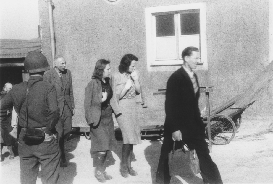 An American soldier stands guard while German civilians file past piles of corpses outside the crematorium at the newly liberated Buchenwald concentration camp.Lieutenant Colonel Parke O. Yingst was born in Hummelstown, PA in 1908. In 1930 he graduated from the Colorado School of Mines and joined the Army Corps of Engineers as a reservist. He subsequently went to work in Venezuela. During this period, his reserve commission expired. After returning to the United States in 1940, Yingst applied for recommissioning so that he could join the fight against Hitler. In 1942 he was ordered to active duty as a First Lieutenant in the Army Corps of Engineers. On April 4, 1944 he was promoted to Major, and in July, he assumed command of the 281st Engineer Combat Battalion. In April 1945 Yingst was present at the liberation of the Ohrdruf and Buchenwald concentration camps. He was eventually promoted to Lieutenant Colonel prior to his separation from the army for medical reasons.